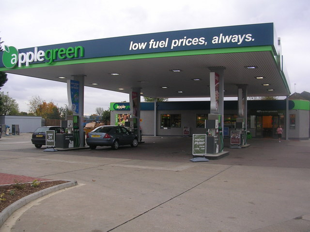 Applegreen petrol station, Enfield Petrol Station on the A10 Great Cambridge Road